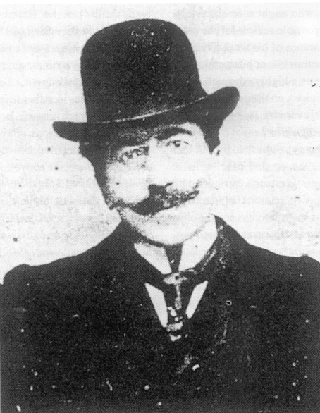 Greek composer Loudovikos Spinellis / Λουδοβίκος Σπινέλλης (1872-1904)